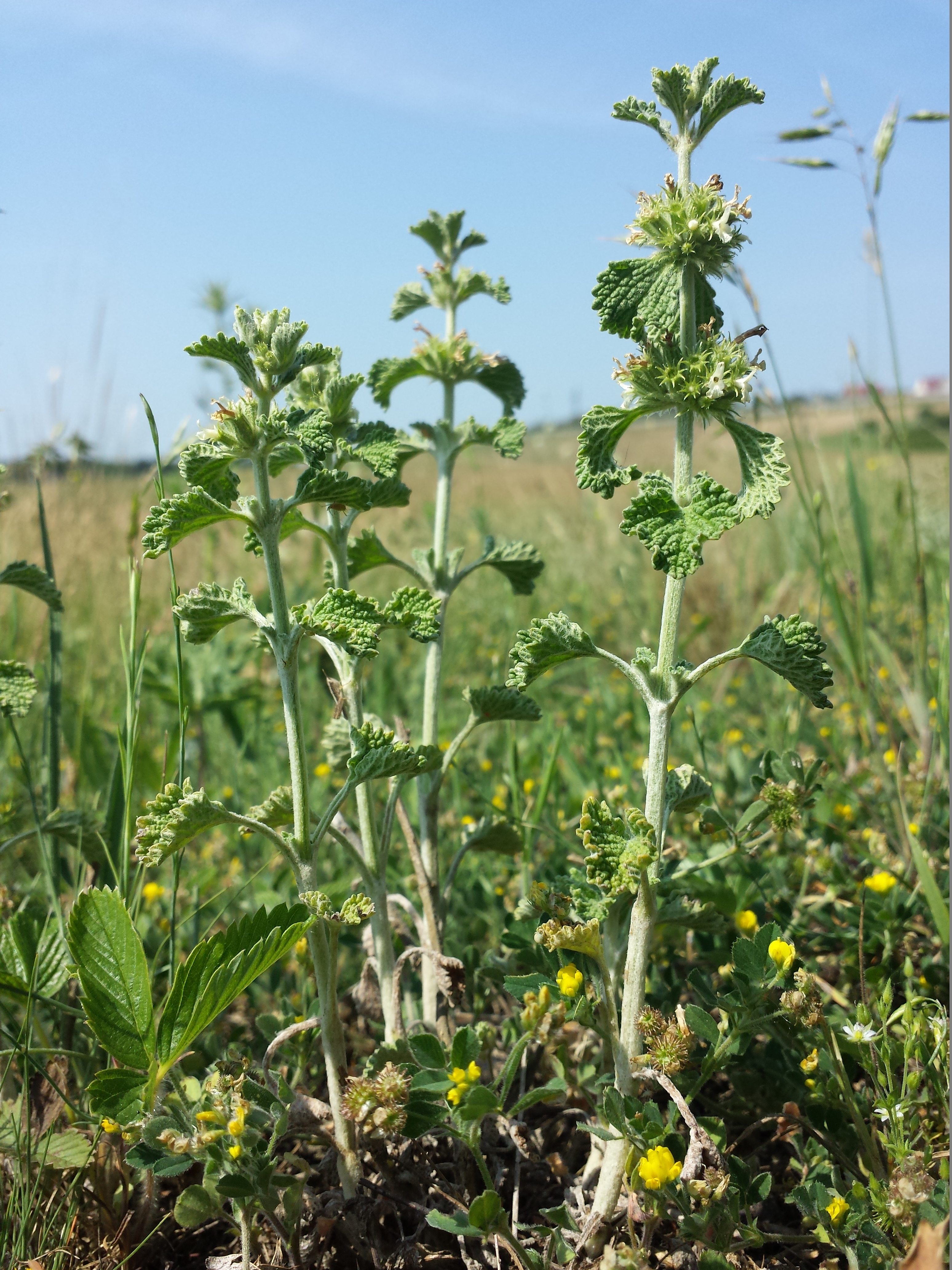 Habitus Taxonym: Marrubium vulgare ss Fischer et al. EfÖLS 2008 ISBN 978-3-85474-187-9; det. Gergely Király 2015-06-07 Location: Veszprém County, Hungary - ca. 200 m a.s.l. Habitat: dry grassland